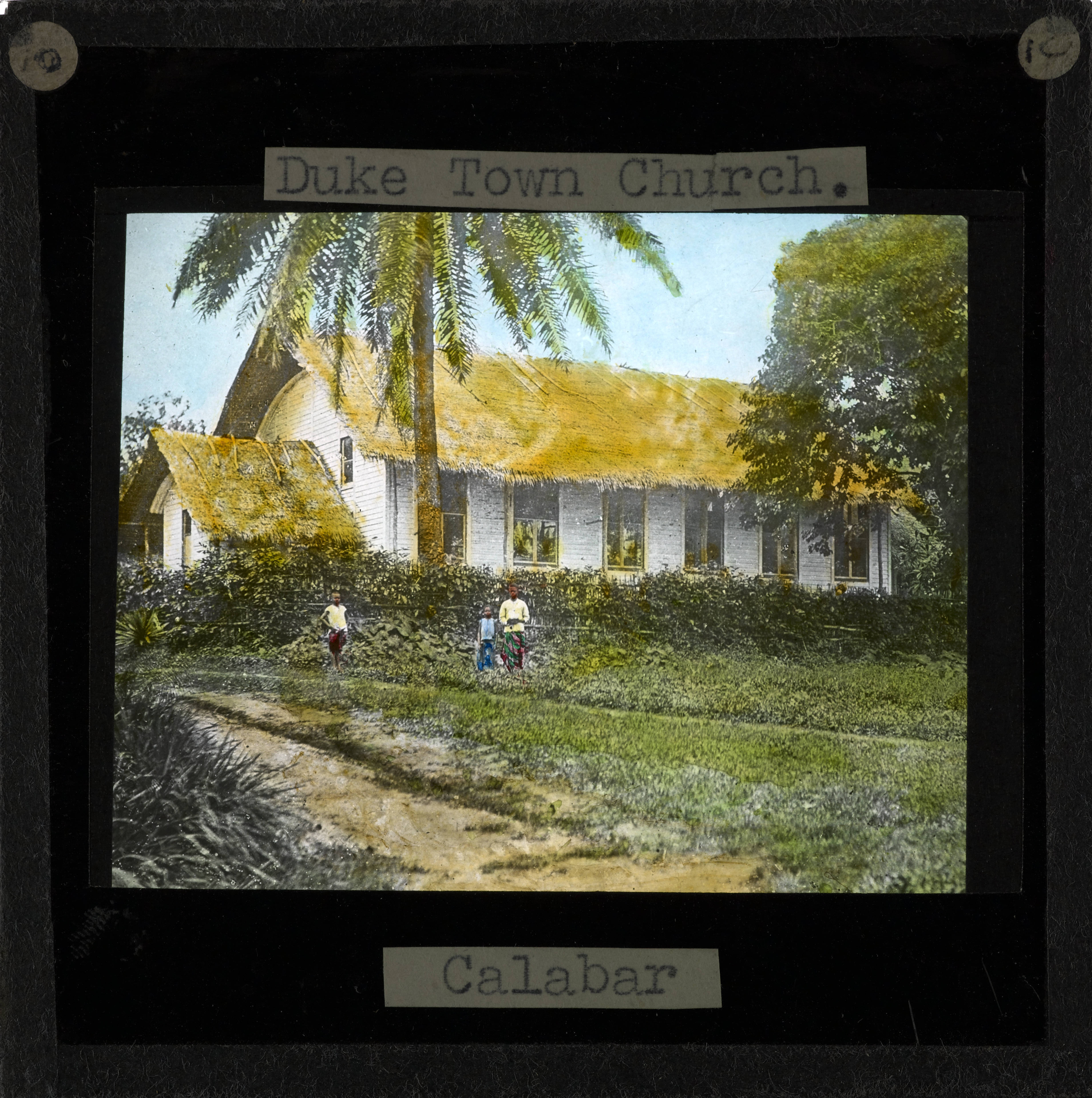 Duke Town Church, Calabar, late 19th century Image of the Duketown Church, Calabar (located within later day Nigeria). Three people stand in front of the white sided church with a thatched roof.; Duketown lies on the Calabar river 50 miles from the coast. Photographer: Unknown Filename: imp-cswc-GB-237-CSWC47-LS2-010.tif Coverage date: circa 1880 Part of collection: International Mission Photography Archive, ca.1860-ca.1960 Type: images Part of subcollection: Photographs from the Centre for the Study of World Christianity, University of Edinburgh, U.K., ca.1900-ca.1940s Repository name: Centre for the Study of World Christianity Repository address: The University of Edinburgh School of Divinity, New College, Mound Place, Edinburgh EH1 2LX, United Kingdom Geographic subject (country): Nigeria Format (aacr2): 1 lantern slide : 8 x 8 cm. Geographic subject (continent): Africa Rights: Contact the repository for details. Part of series: Mary Slessor LS2 Repository Subject (lcsh Keyword): Church buildings; thatched roofs; Date created: circa 1880 Publisher (of the digital version): University of Southern California. Libraries Subject (aat genre): group portraits Format (aat): lantern slides Legacy record ID: impa-m Access conditions: File: GB 237 CSWC47/LS2/10